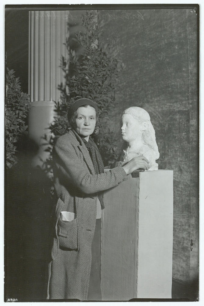 Astrid Noack (1889-1954). Danish sculptress KB id: ke016795.tif Photo: Holger Damgaard (1870-1945) Department of Maps, Prints and Photographs, The Royal Library, Denmark.